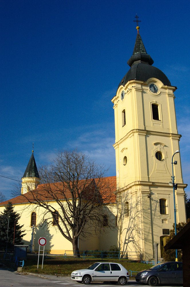 Šikmá veža, Vrbové